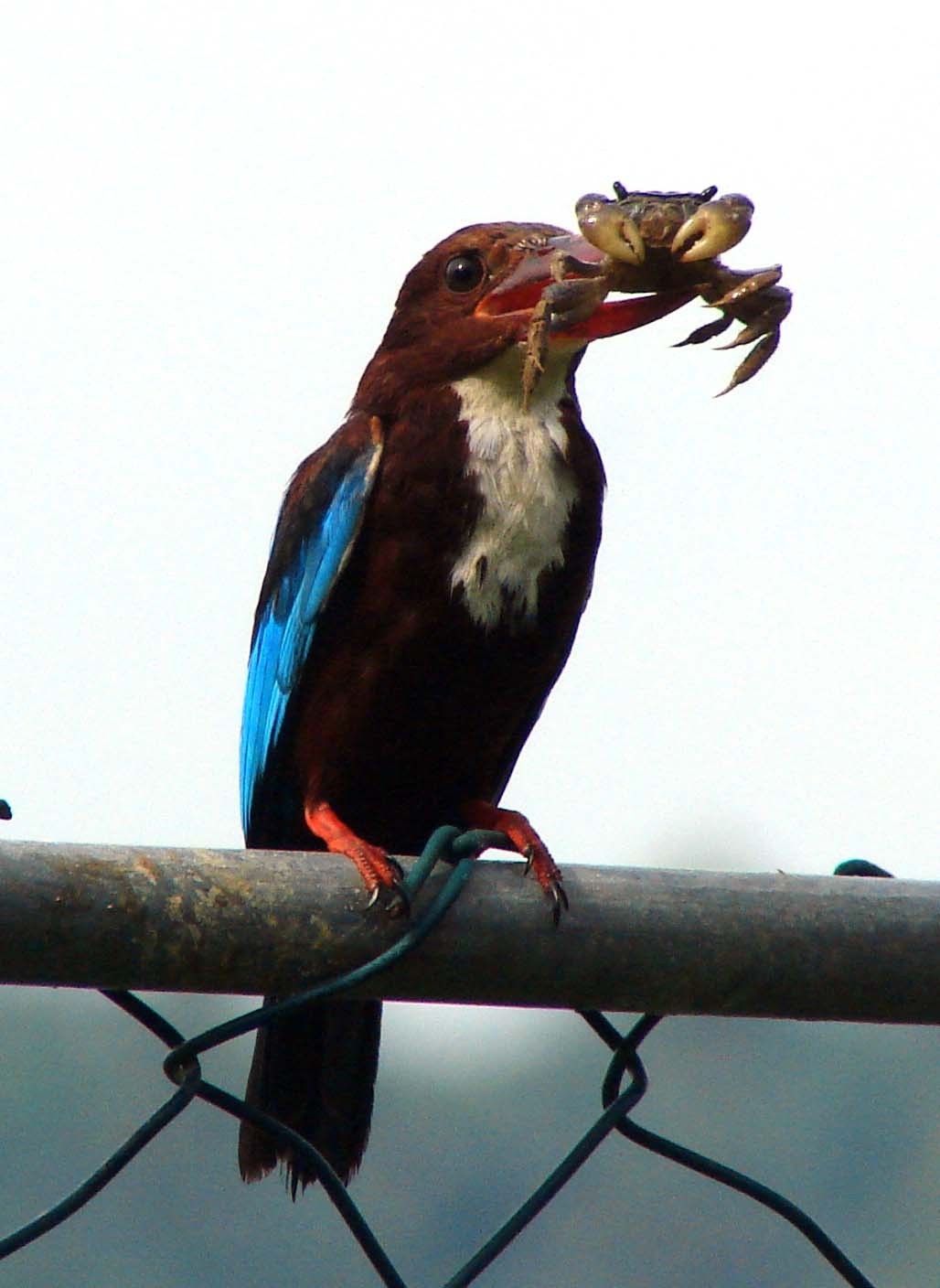 White-throated Kingfisher (also known as the White-breasted Kingfisher or Smyrna Kingfisher) in Dharga Town, Sri Lanka.